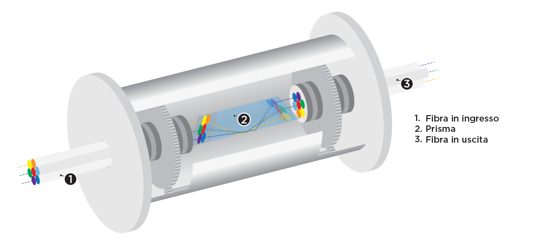 Illustration of a slip ring with fibre optic technology